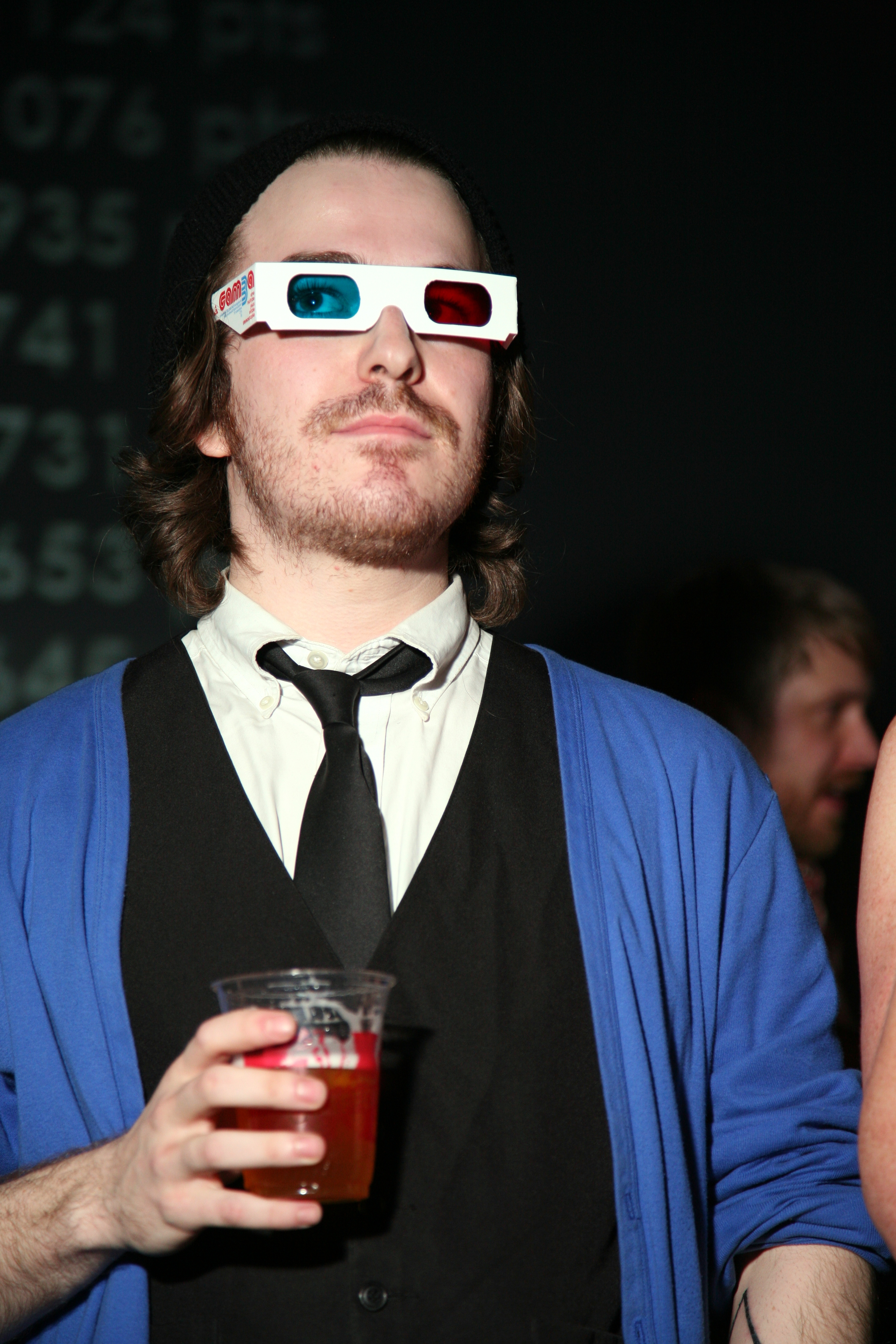 Phil Fish during the GAMMA 3D event in 2008